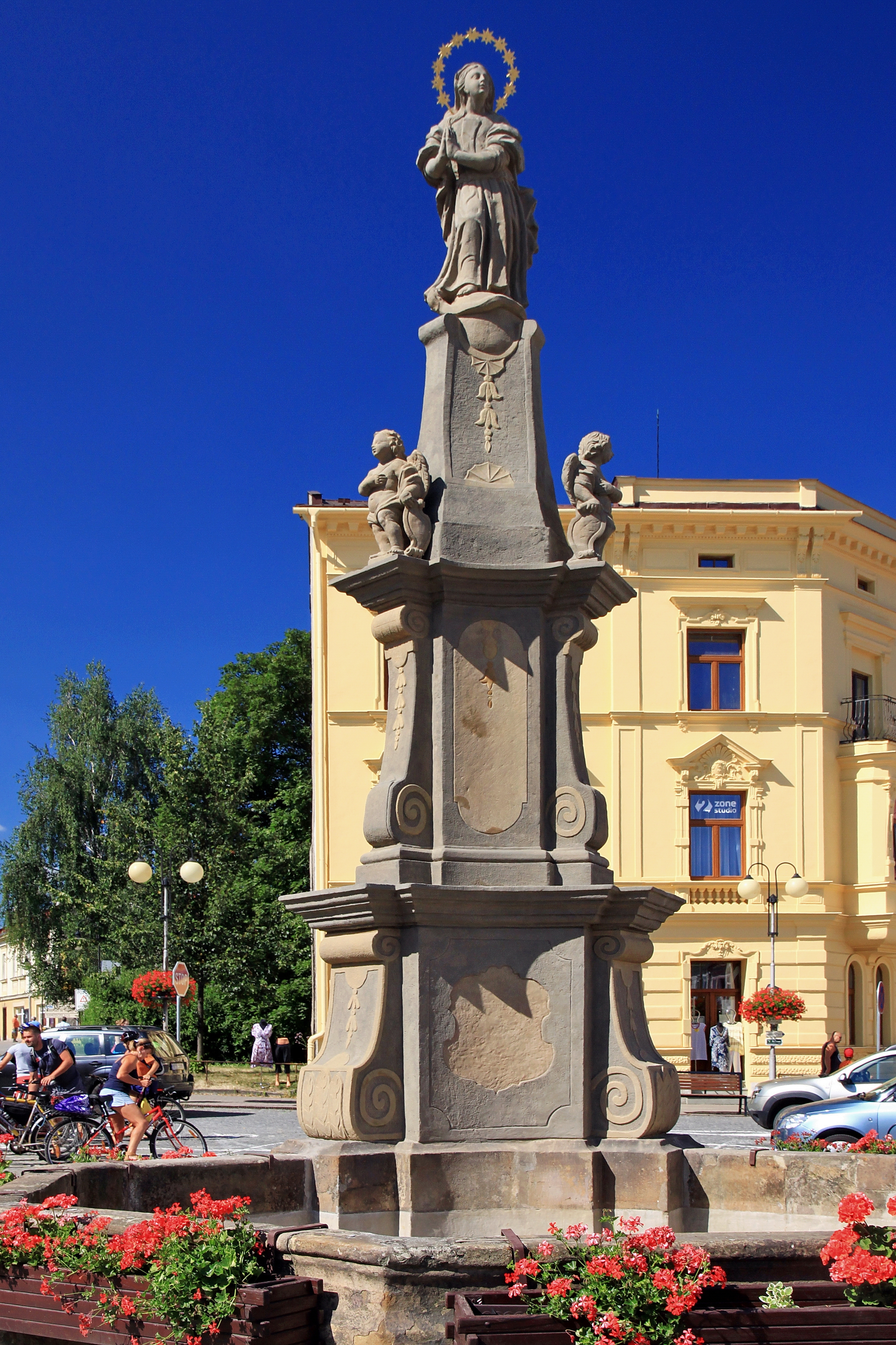 Fountain with statue of the Immaculata (Blessed Virgin Mary), Mariánské square. Jablunkov, Moravian-Silesian Region, Czech Republic.